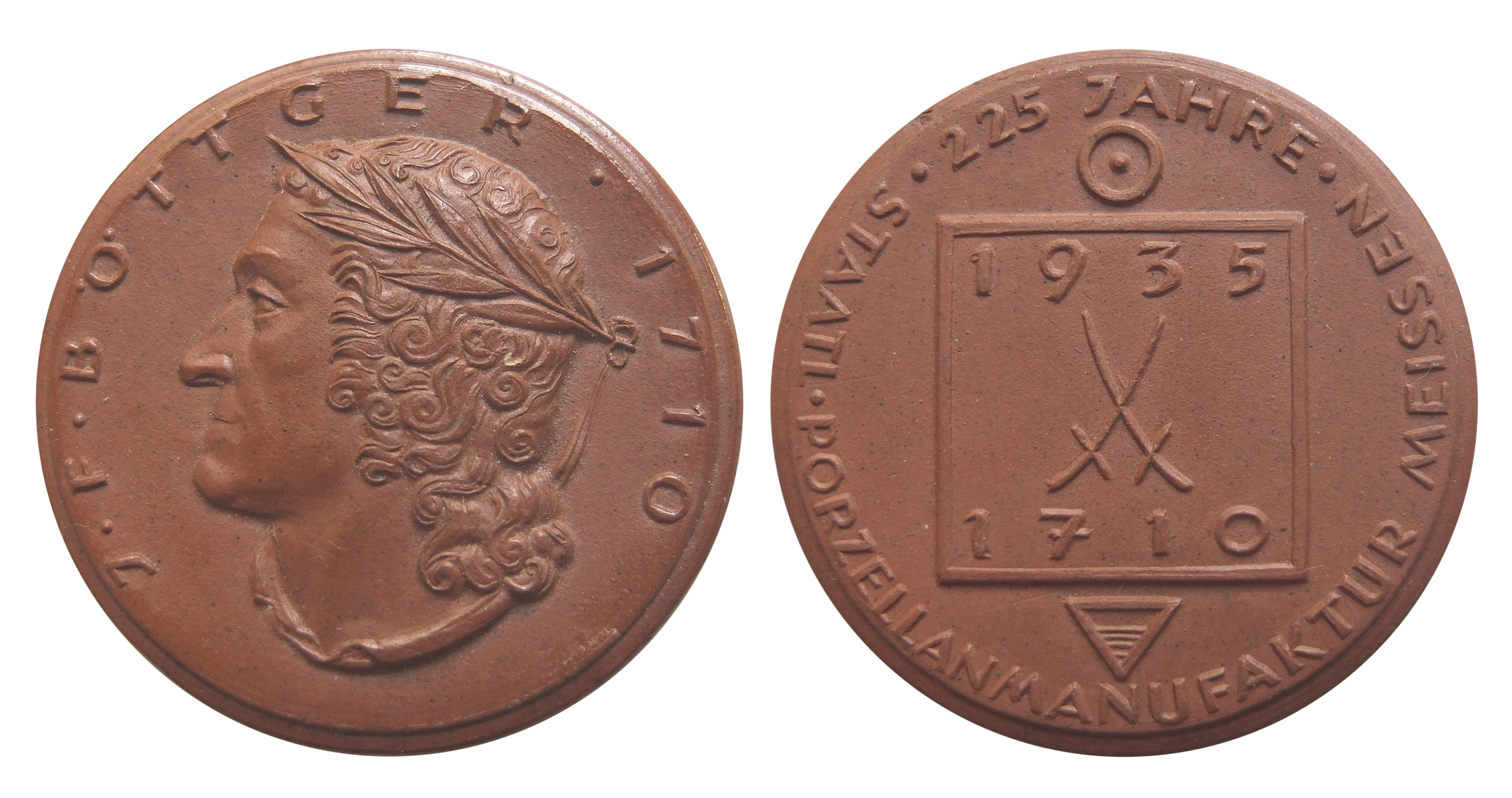 Medal for the 225th anniversary of the porcelain factory in Meissen, 1935. The AV depicts the portrait of the inventor of the stoneware which is named after him, Johann Friedrich Böttger. RV: the crossed swords logo for Meissen and the dates of the jubilee. Brown "Böttgersteinzeug", diam. 36 mm.